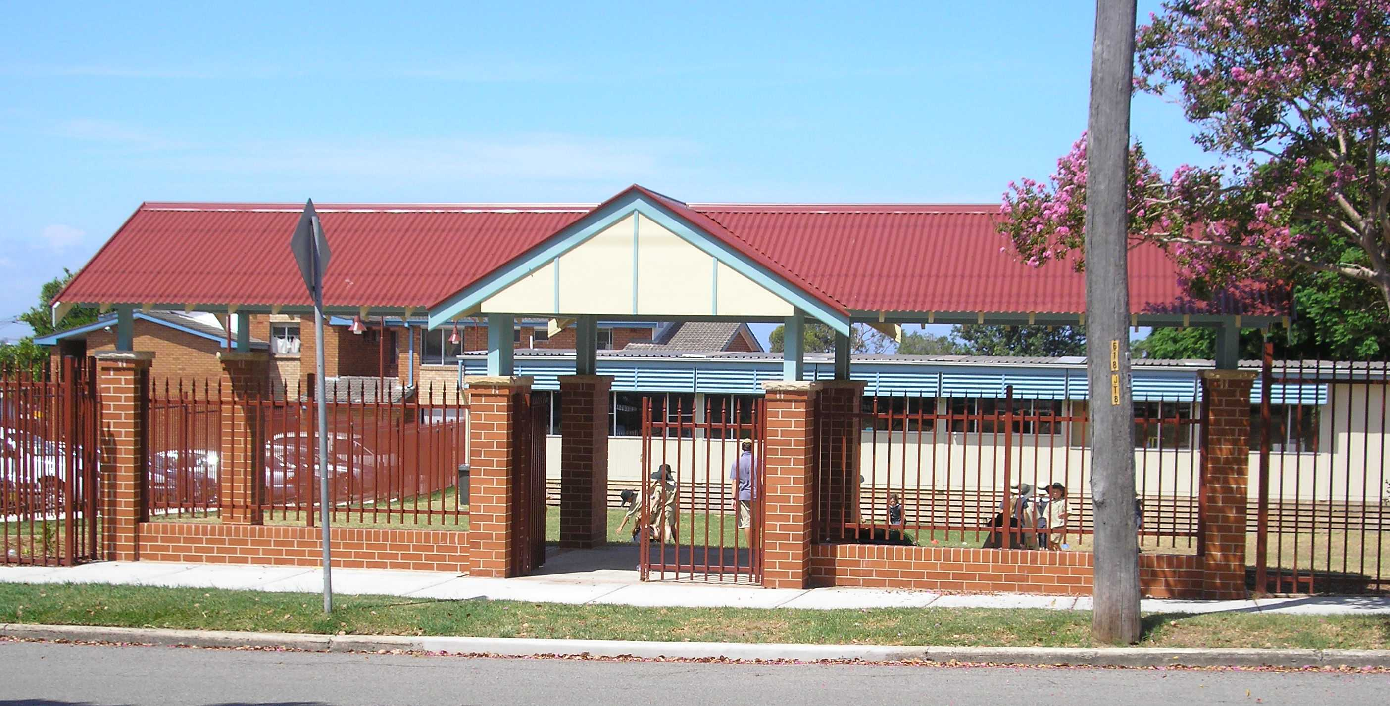 Picture of St. Philip's Christian College, Bridge Street entrance, Waratah, 2298, NSW, Australia.